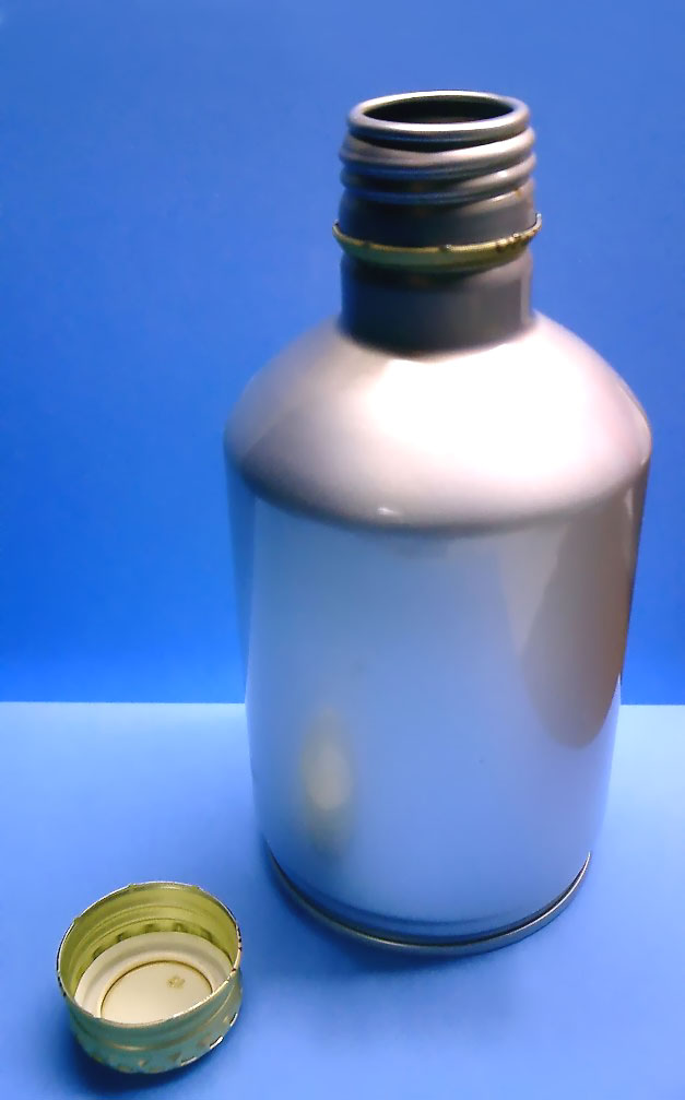 Bottle_Can